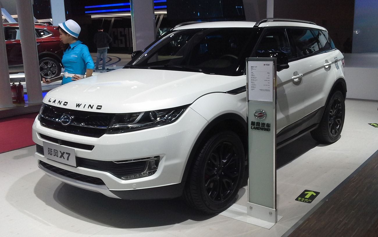 Landwind X7 photographed at the Auto Shanghai 2015, Shanghai, China.